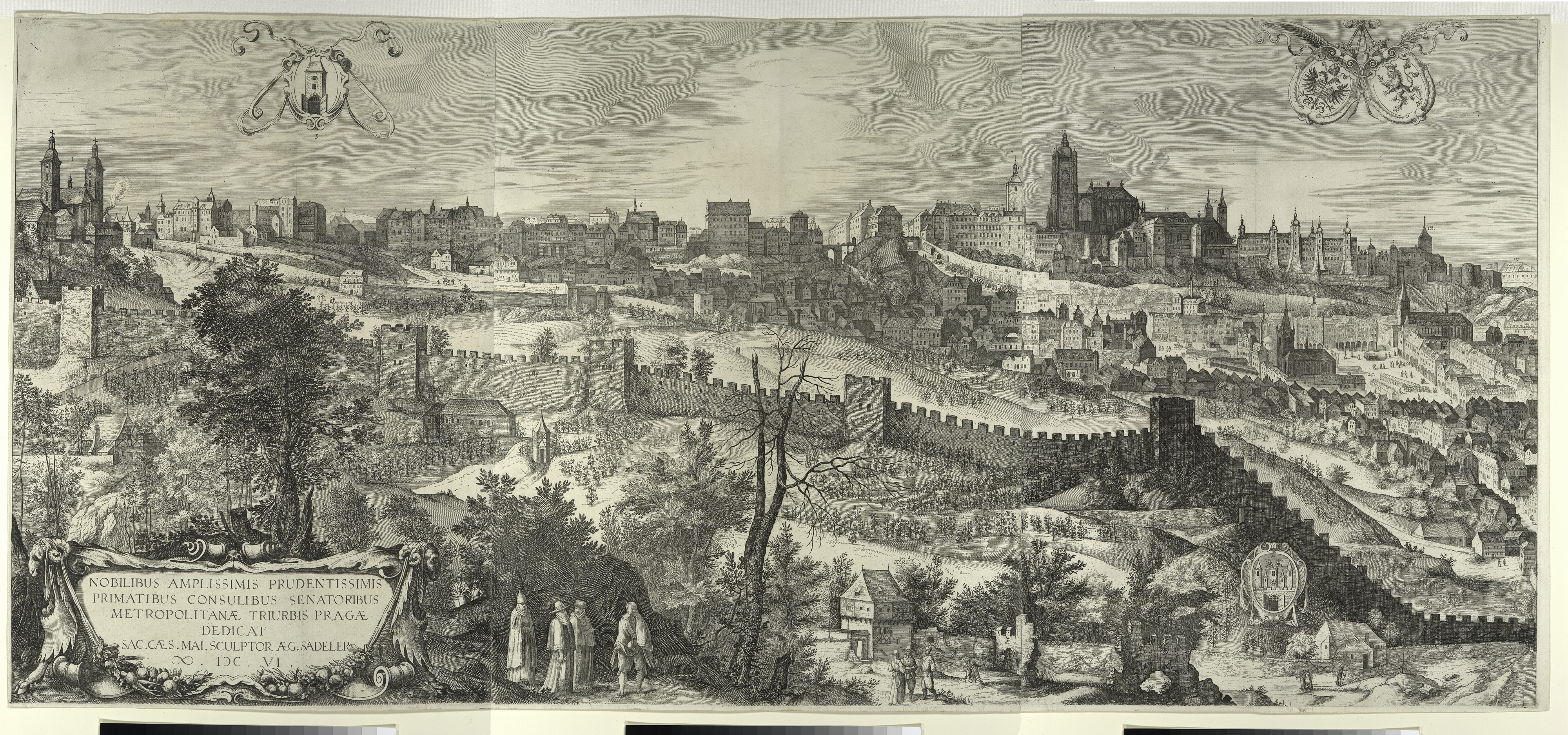 Print; Prints